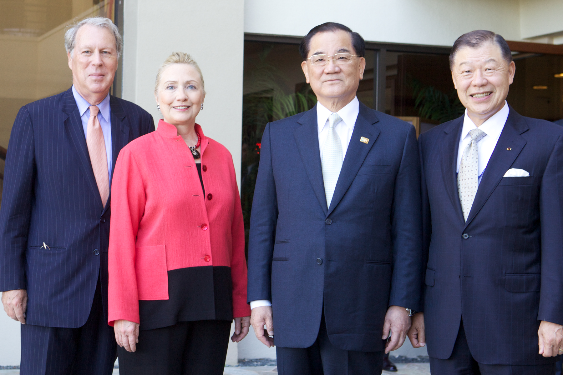 U.S. Secretary of State Hillary Rodham Clinton meets with Leader's Representative of Chinese Taipei Dr. Lien Chan on the sidelines of APEC in Honolulu, Hawaii, on November 12, 2011. [State Department photo by Scott Chernis]